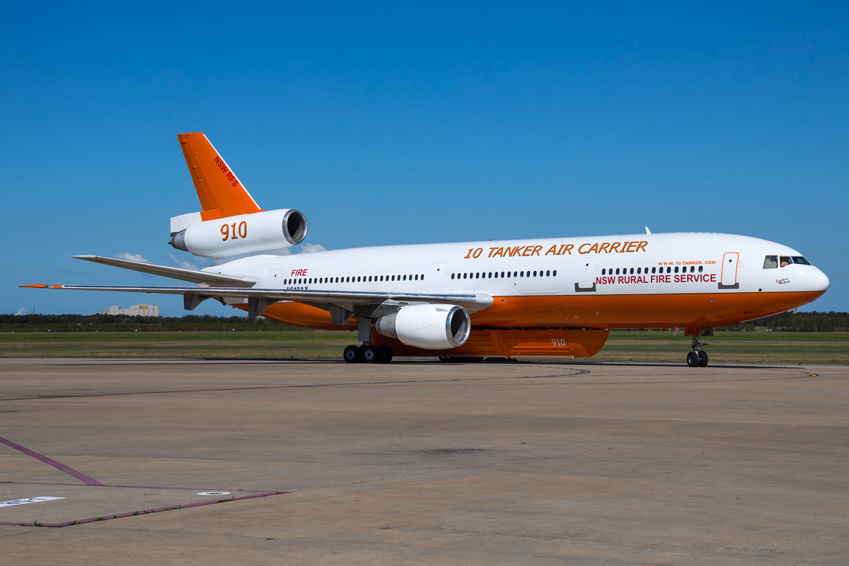 10 Tanker Air Carrier McDonnell Douglas DC-10-30ER at Brisbane Airport